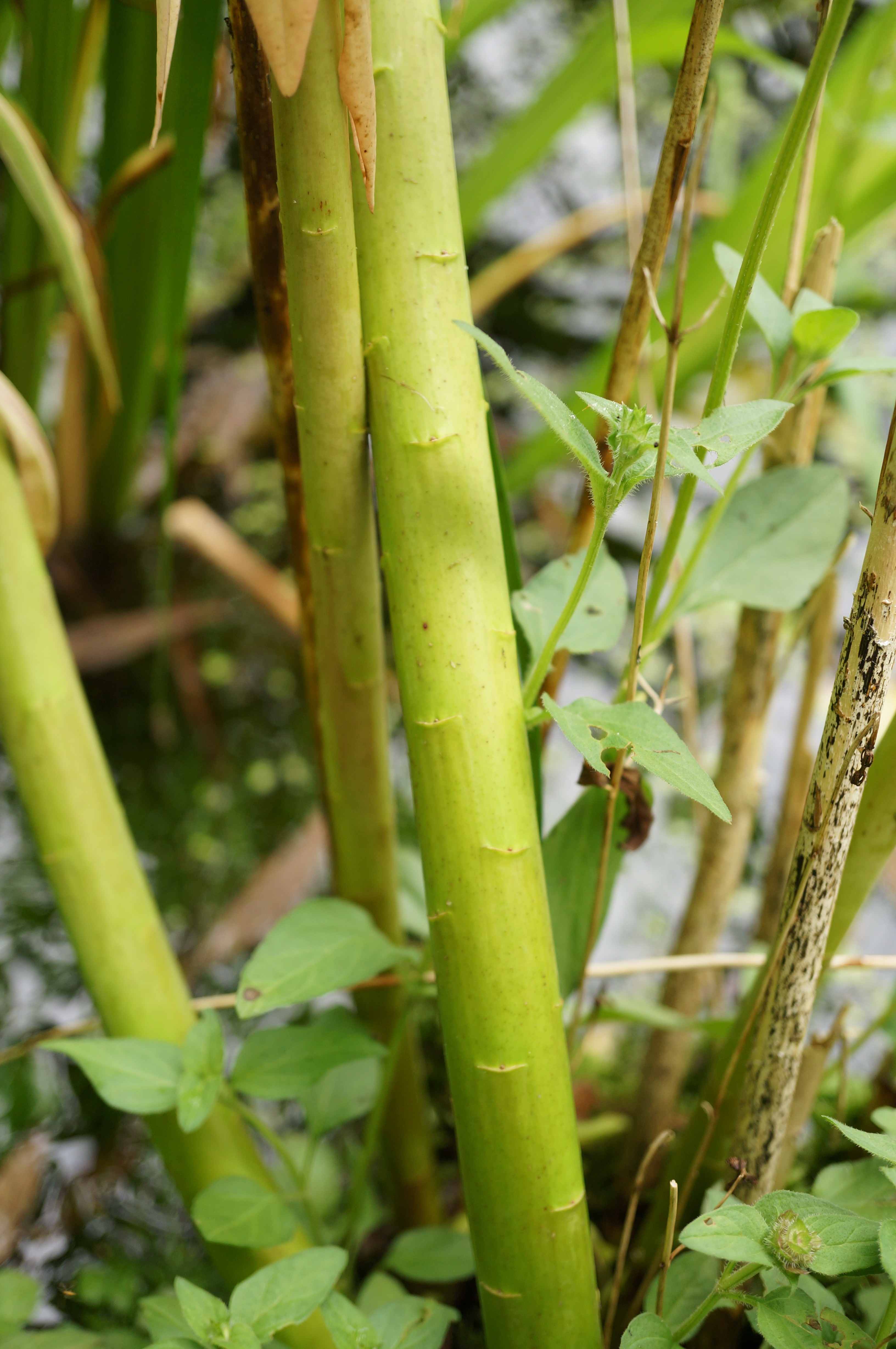 Euphorbia palustris, stem.